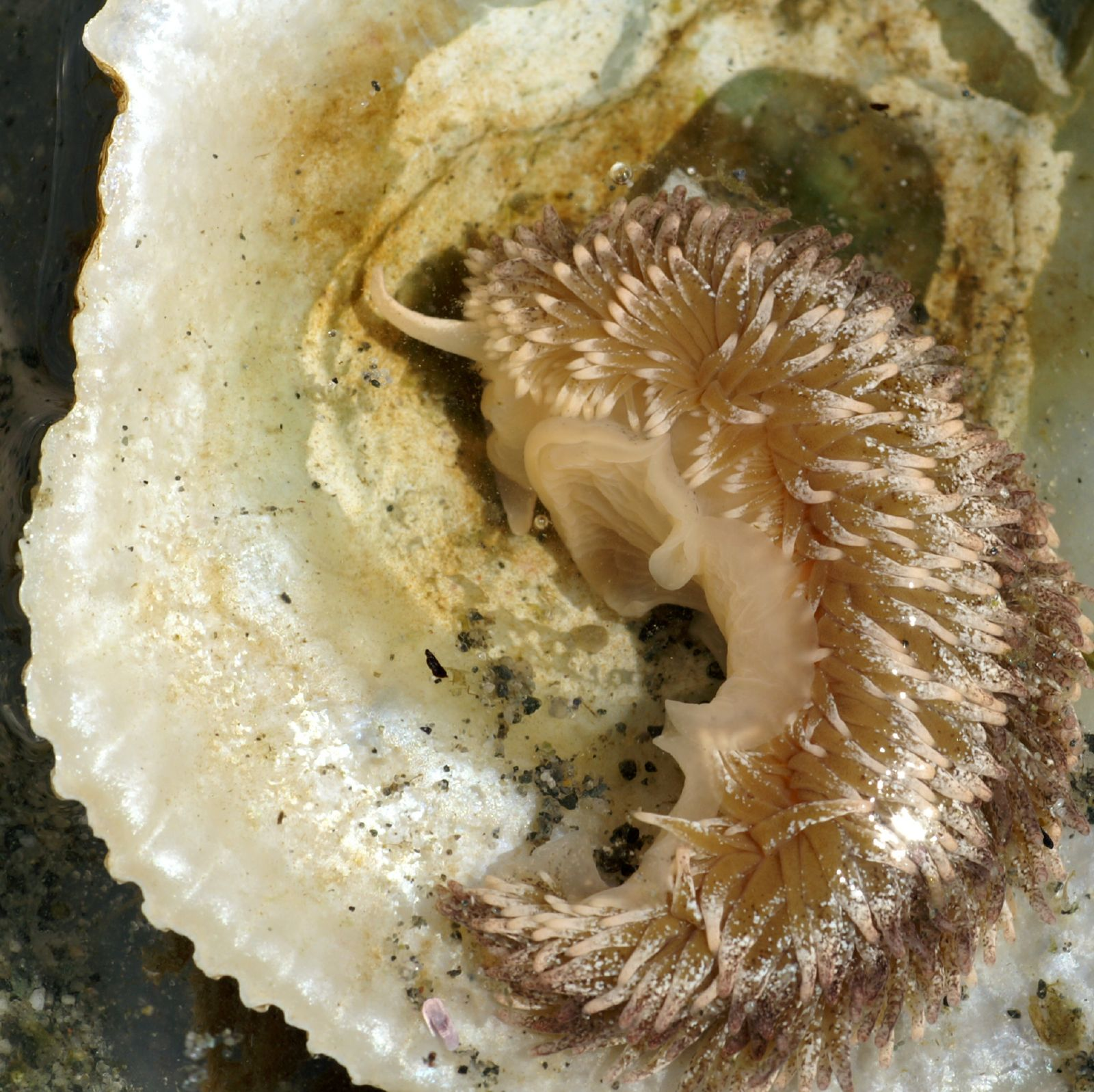 Shag rug nudibranch (Aeolidia papillosa) found in the surf at Edmonds, Washington.